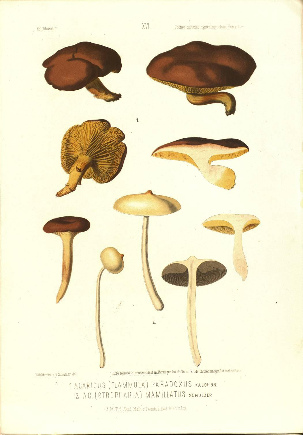 Plate XVI: Phylloporus pelletieri as Agaricus rhodoxanthus. Icones selectae hymenomycetum Hungariae. Typis Athenaeum, Budapest.